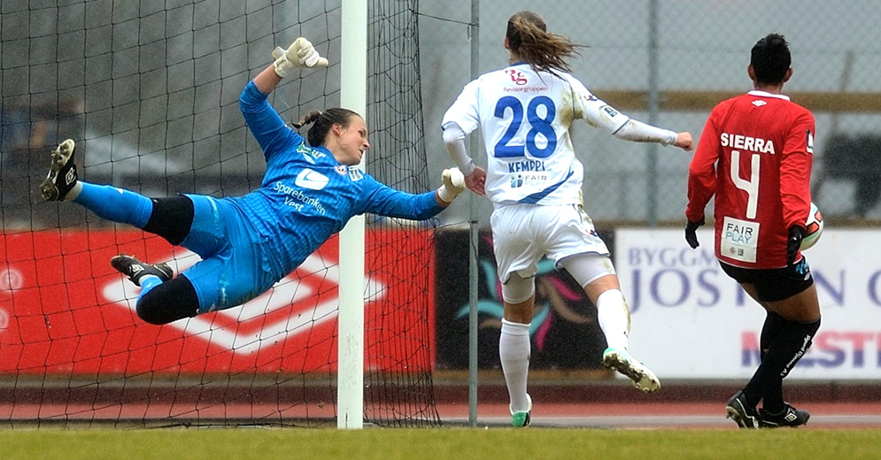 Giannetti with Arna Bjornar - 2016